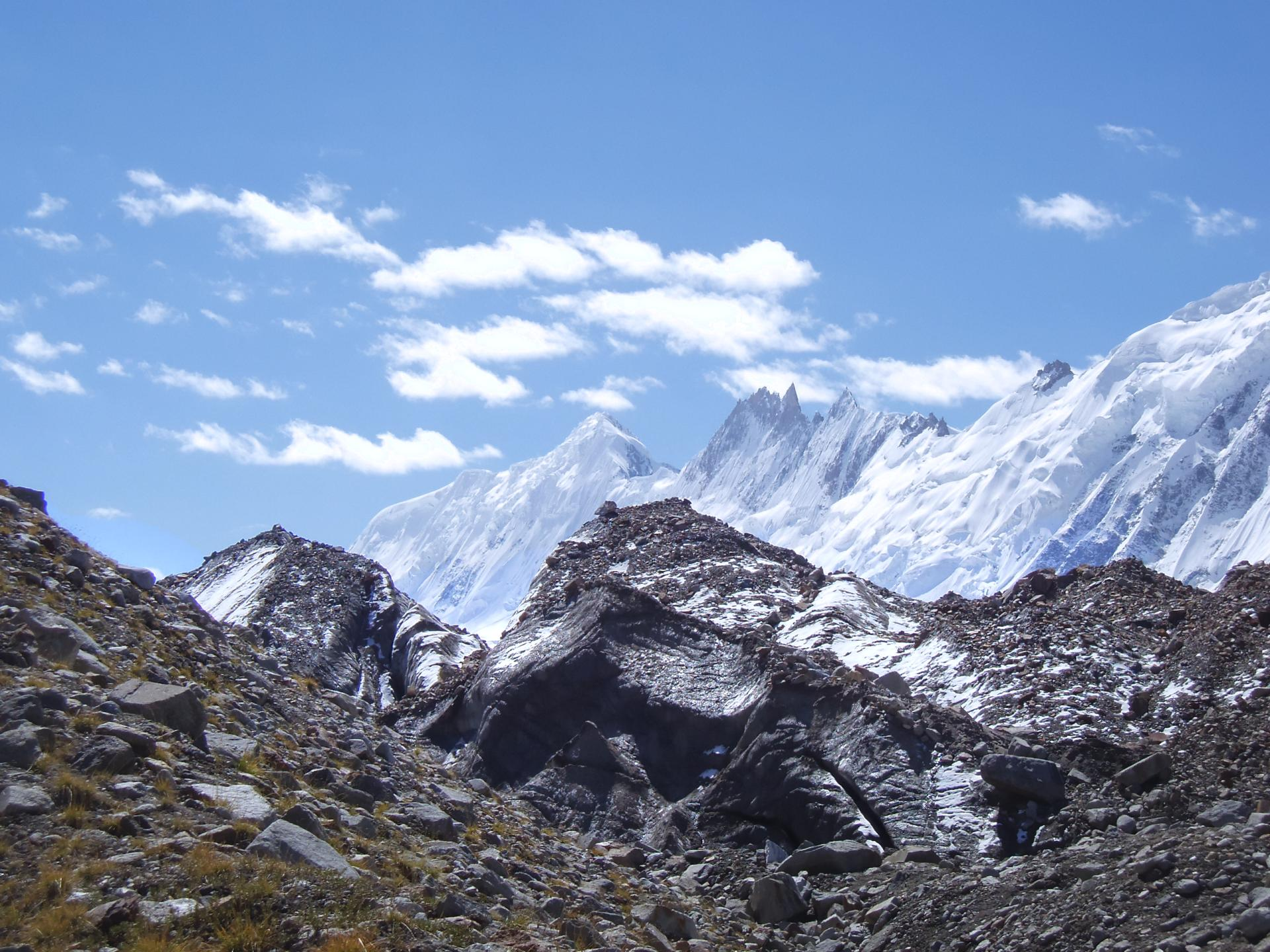 Northern Areas of Pakistan